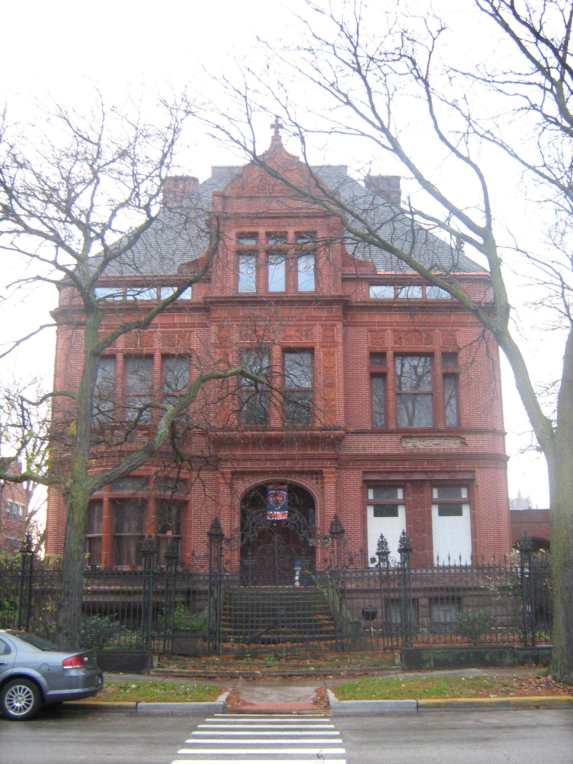 2944 S Michigan Ave Chicago, IL 60616